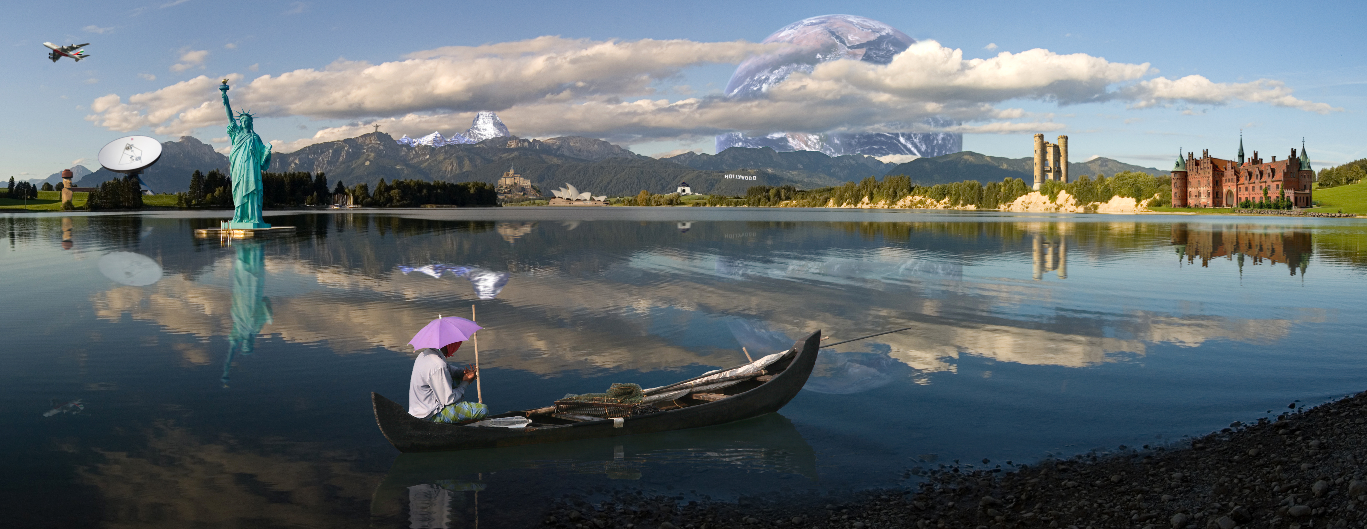 Photomontage - Composite of 16 different photos which have been digitally manipulated to give the impression that it is a real landscape. Software used: Adobe Photoshop